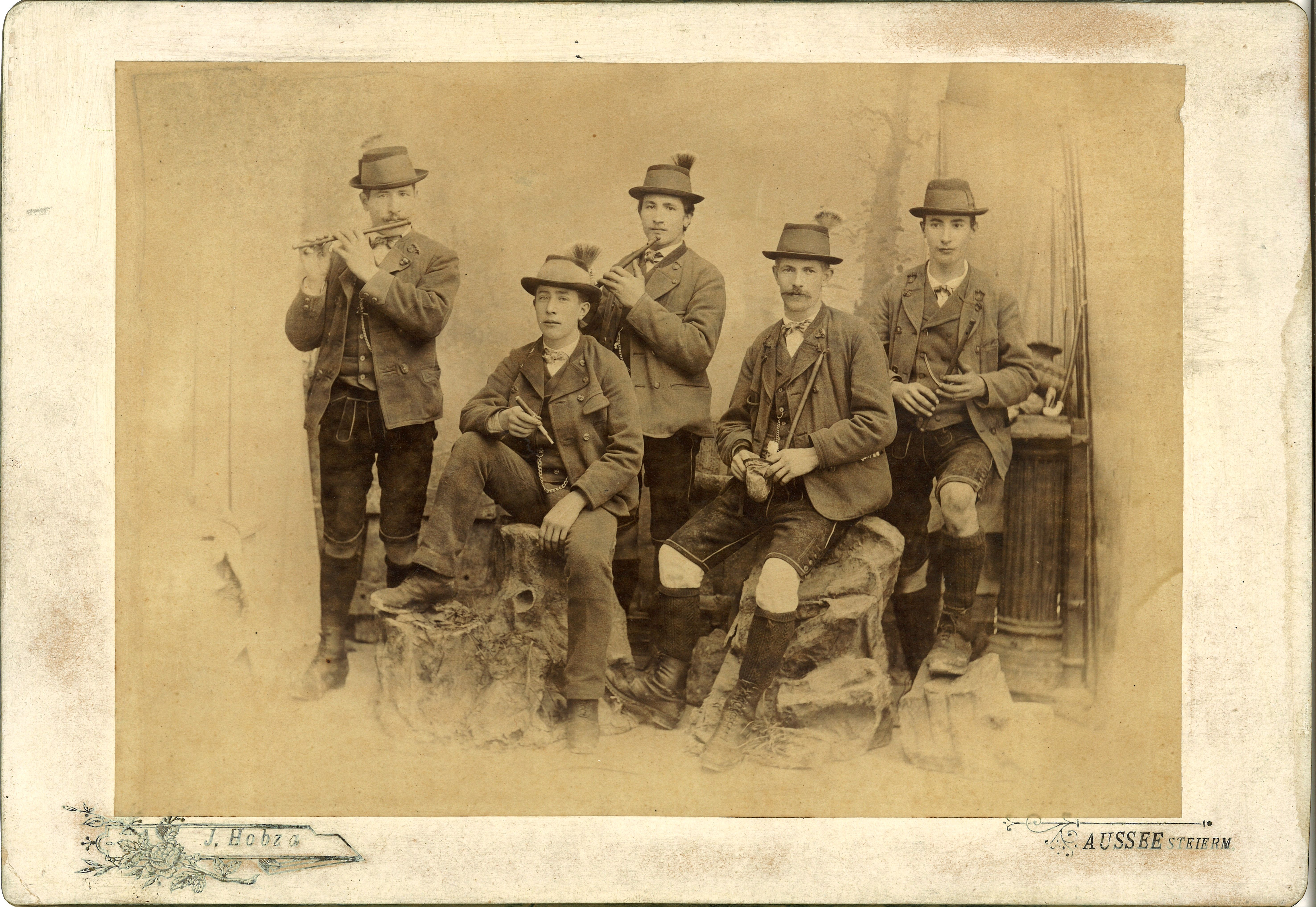 Fife players (Seitlpfeife) in Altaussee at 1891